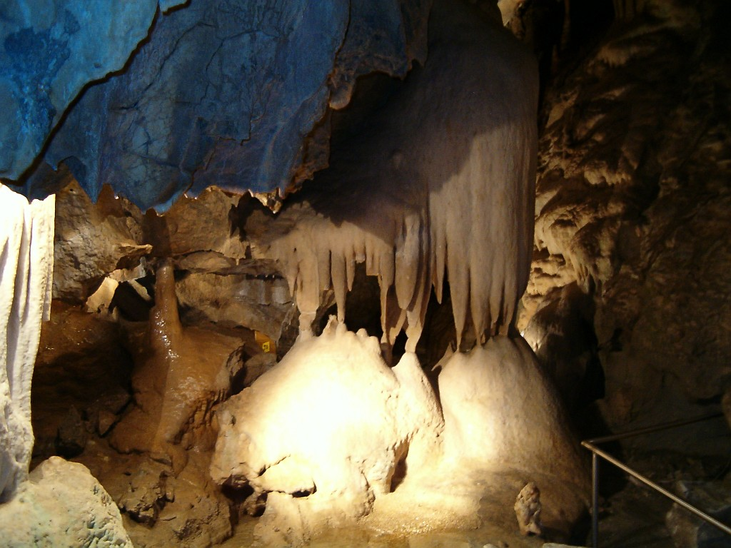 Geological elements in Na Pomezí caves in Jeseník district, Czech Republic Česky: krápníková výzdoba v jeskyni Na Pomezí, okres Jeseník